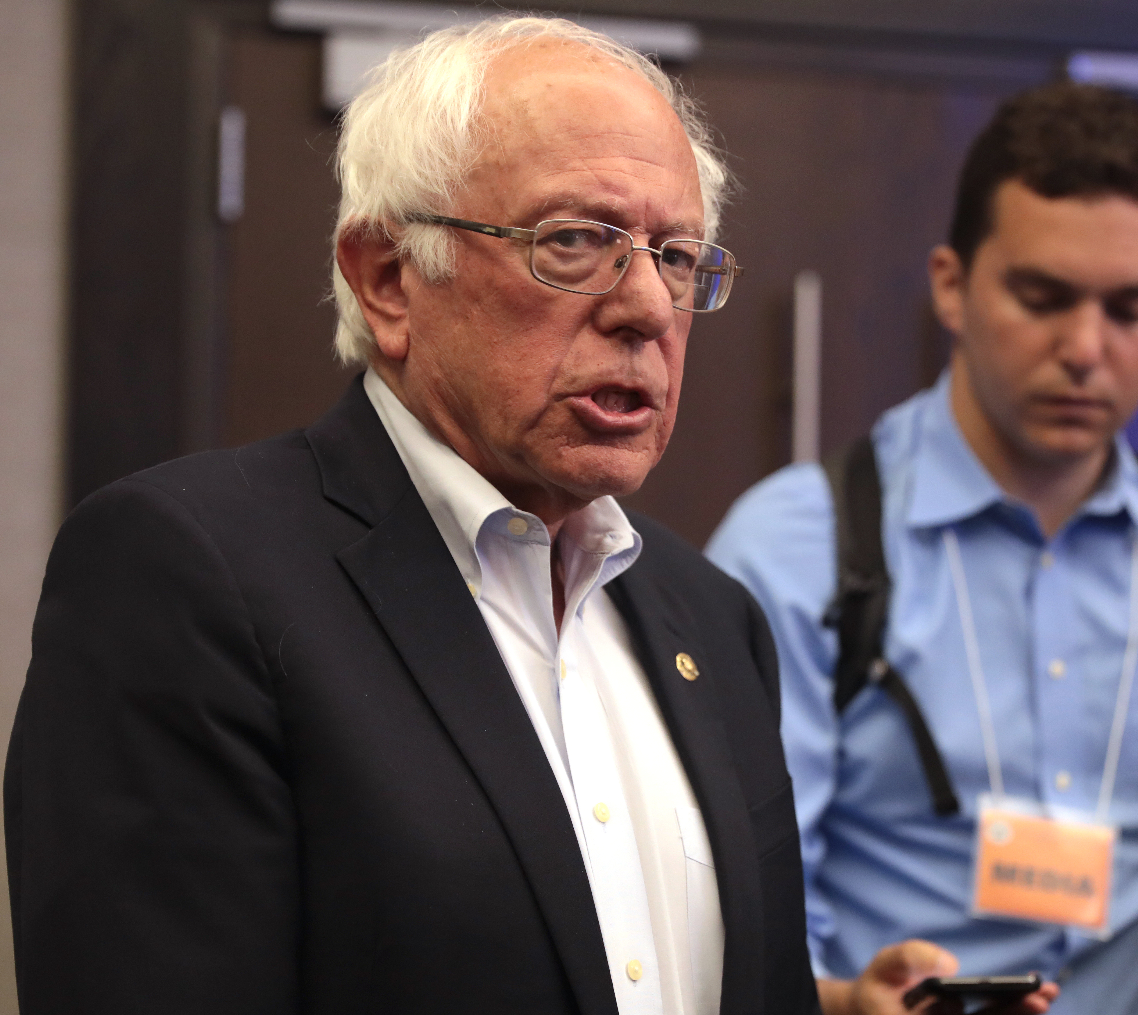 U.S. Senator Bernie Sanders speaking with the media at the 2019 Iowa Federation of Labor Convention hosted by the AFL-CIO at the Prairie Meadows Hotel in Altoona, Iowa.